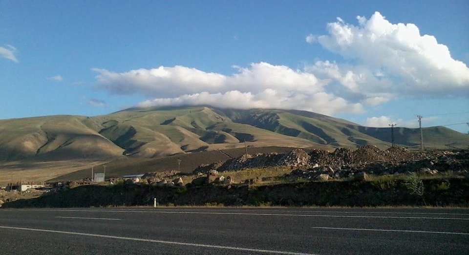 IĞDIR PAMUK DAĞI